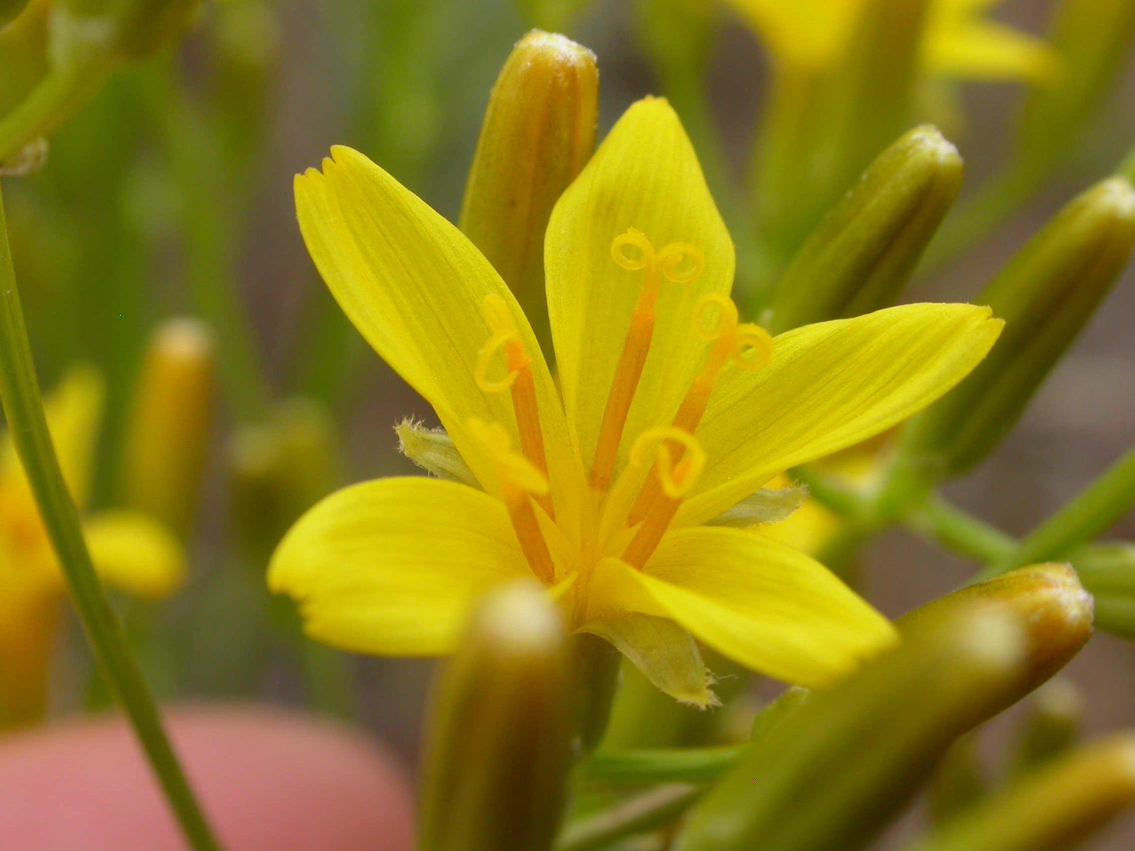 This is very common forb throughout all elevations of the sagebrush vegetation in this area.